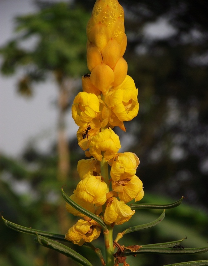 Peetambar flower found in district Kheri India. Its vernacular name is peetambar and scientifically known as senna alata.